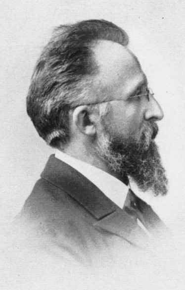 Max Fuerbringer, comparative anatomist and ornithologist